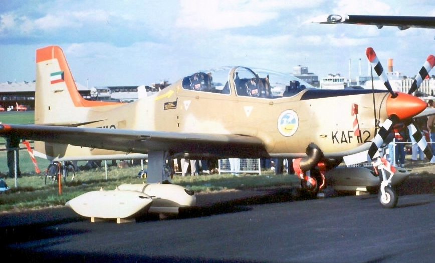 Kuwait Air Force Tucano Mk.52 (KAF112) at Farnborough Air Show 1992